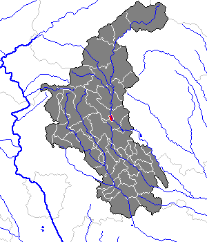 This map shows the area of the Gemeinde (municipality) Anger in the Bezirk (district) Weiz, Styria, Austria.